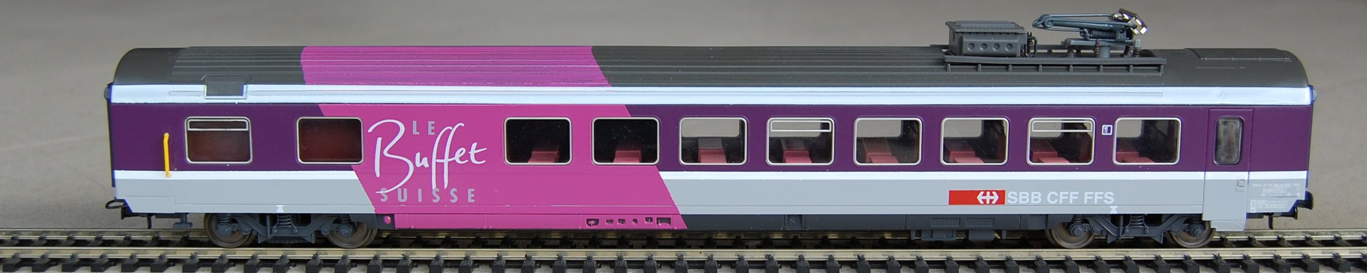 "Le Buffet Suisse" dining car of the SBB-CFF-FFS (Switzerland). Scale model of Roco